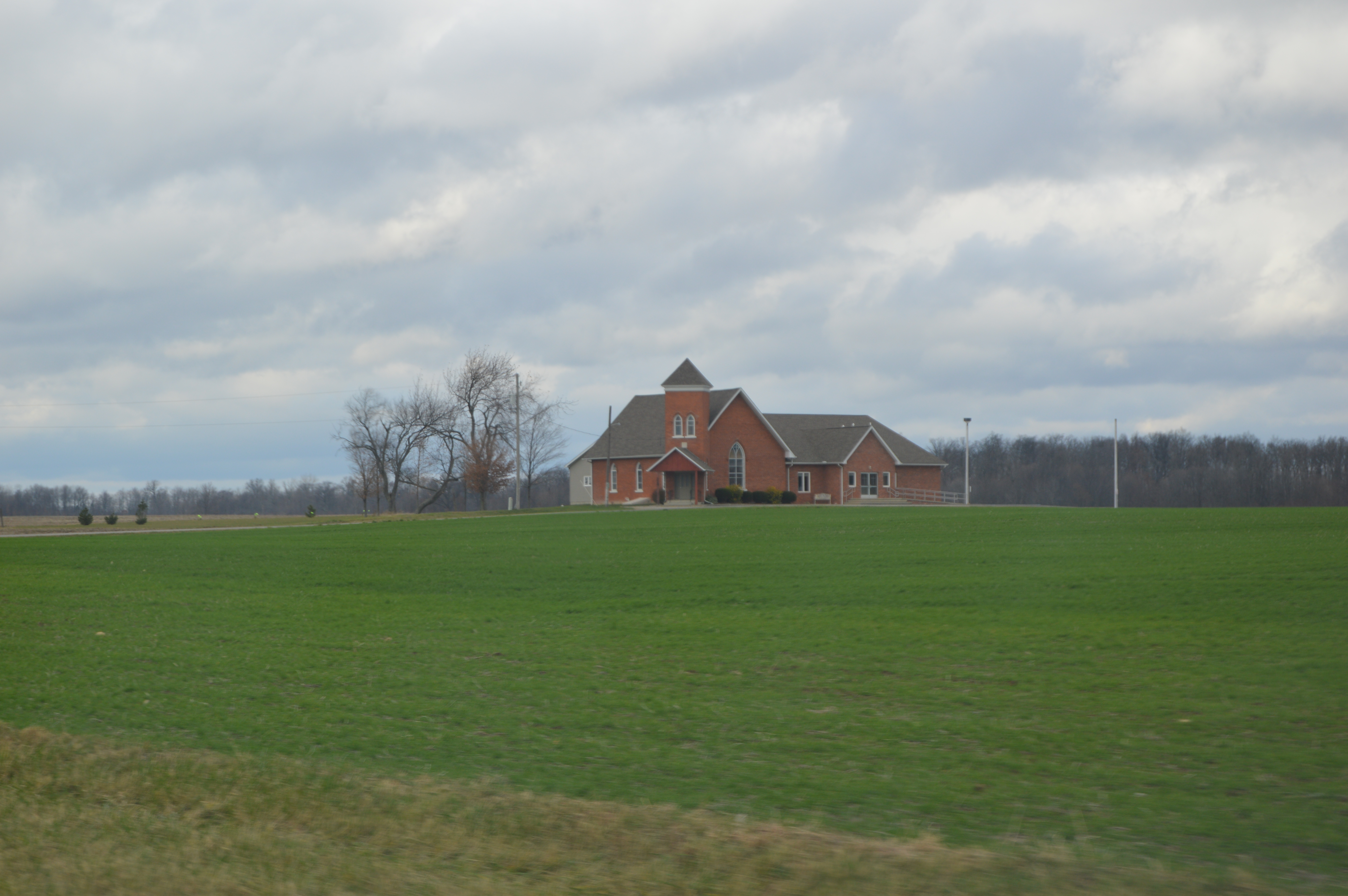 Looking northwest from U.S. Route 20 Alternate over wheat fields toward the Pleasant Ridge Dunkard Brethren Church, located on Road 16 southeast of Holiday City in Jefferson Township, Williams County, Ohio, United States.